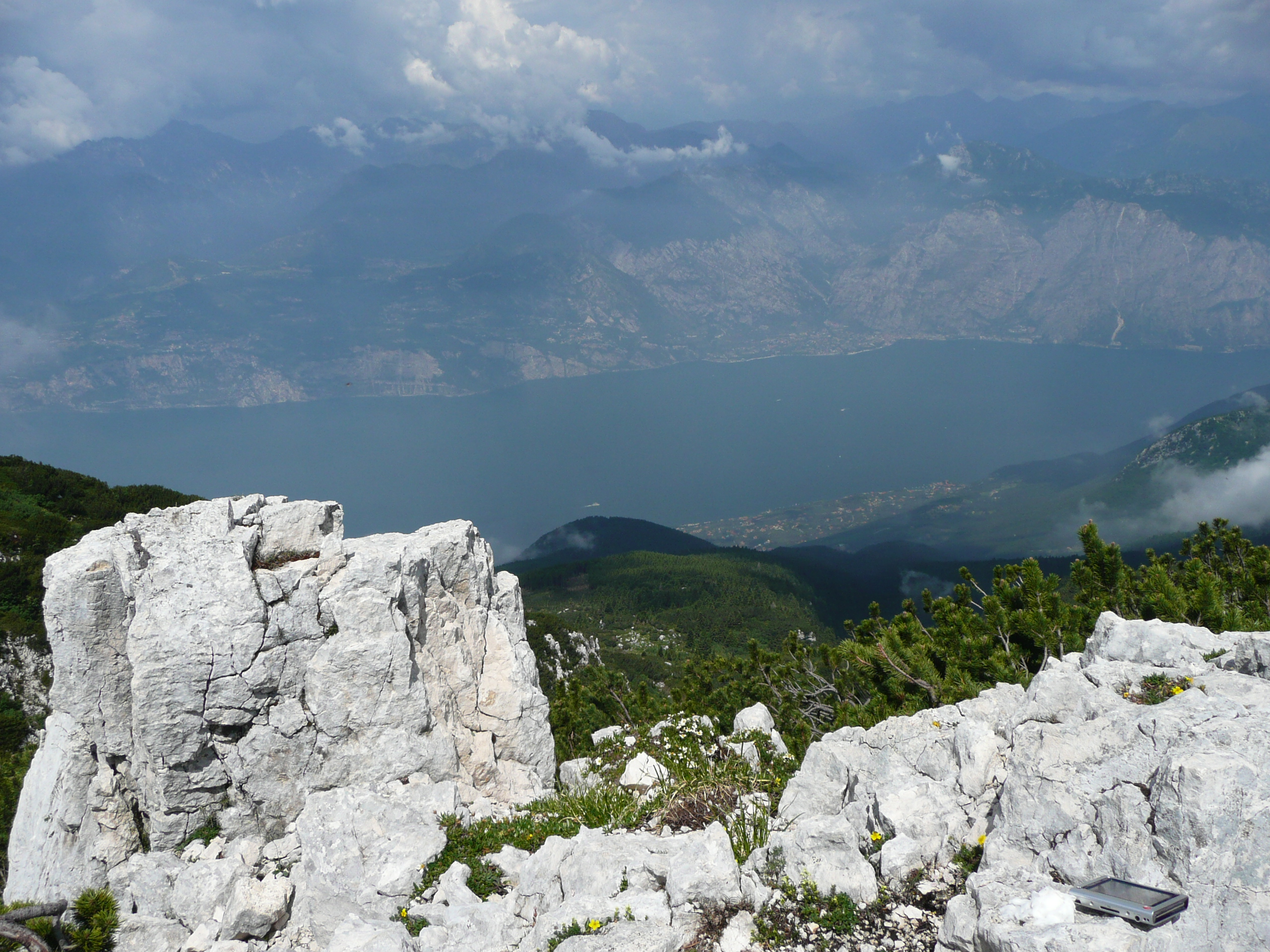 View from Monte Baldo Ridge to Lake Garda, Malcesine and Limone sul Garda.